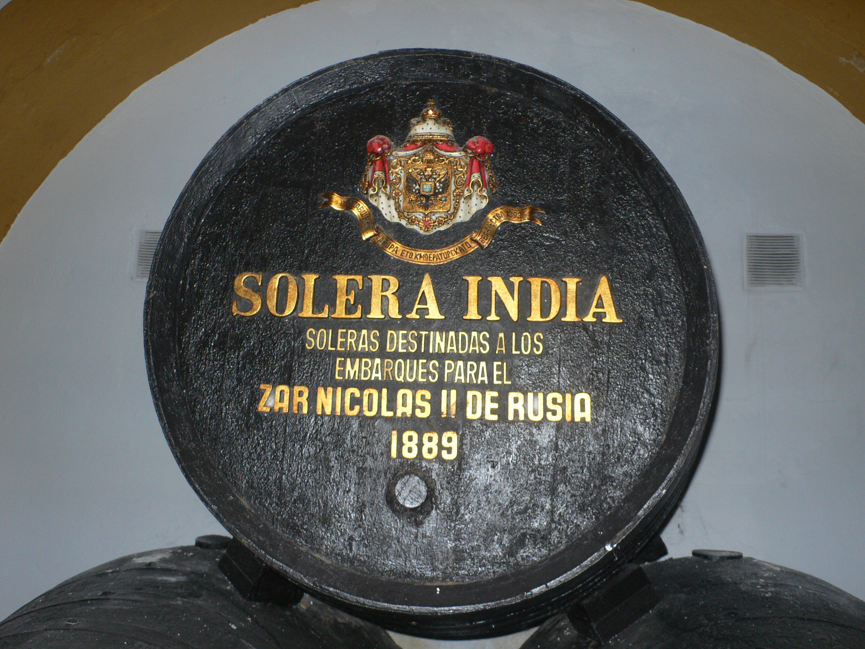 Sherry Barrel for Russian Tsar Nicholas II